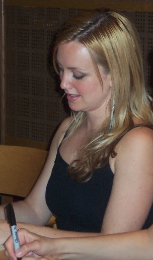 Shaye band on June 9, 2004